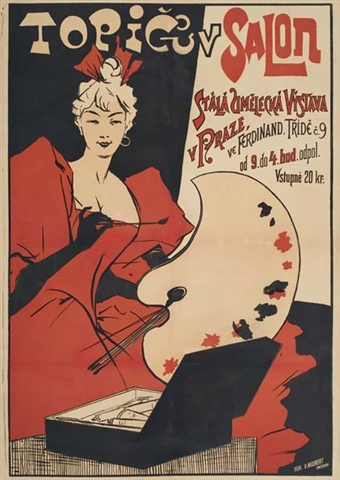 Viktor Oliva: Topicuv Salon (1895) Viktor Oliva (1861–1928) Description Czech painter Date of birth/death24 April 18615 April 1928Authority control VIAF: 71250459 LCCN: nr91043334 ISNI: 000000005568536X WorldCat WP-Person